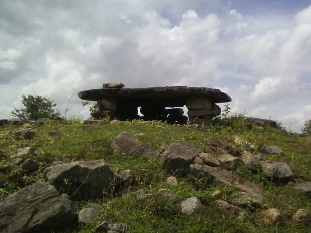 The Muniyara at Peringottukurissi, Palakkad